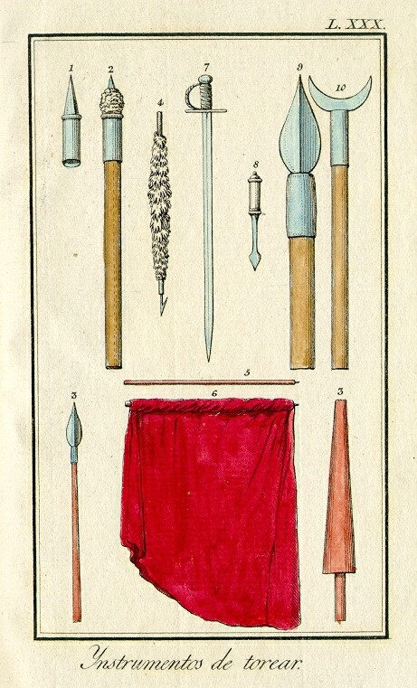 "Tauromaquia" (Rules of spanish bullfight) by José Delgado y Galvez, plate 30: "Die Werkzeuge des Stierkampfs". Coloured etching.